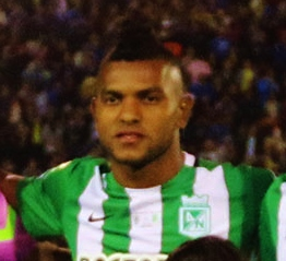 Miguel Borja